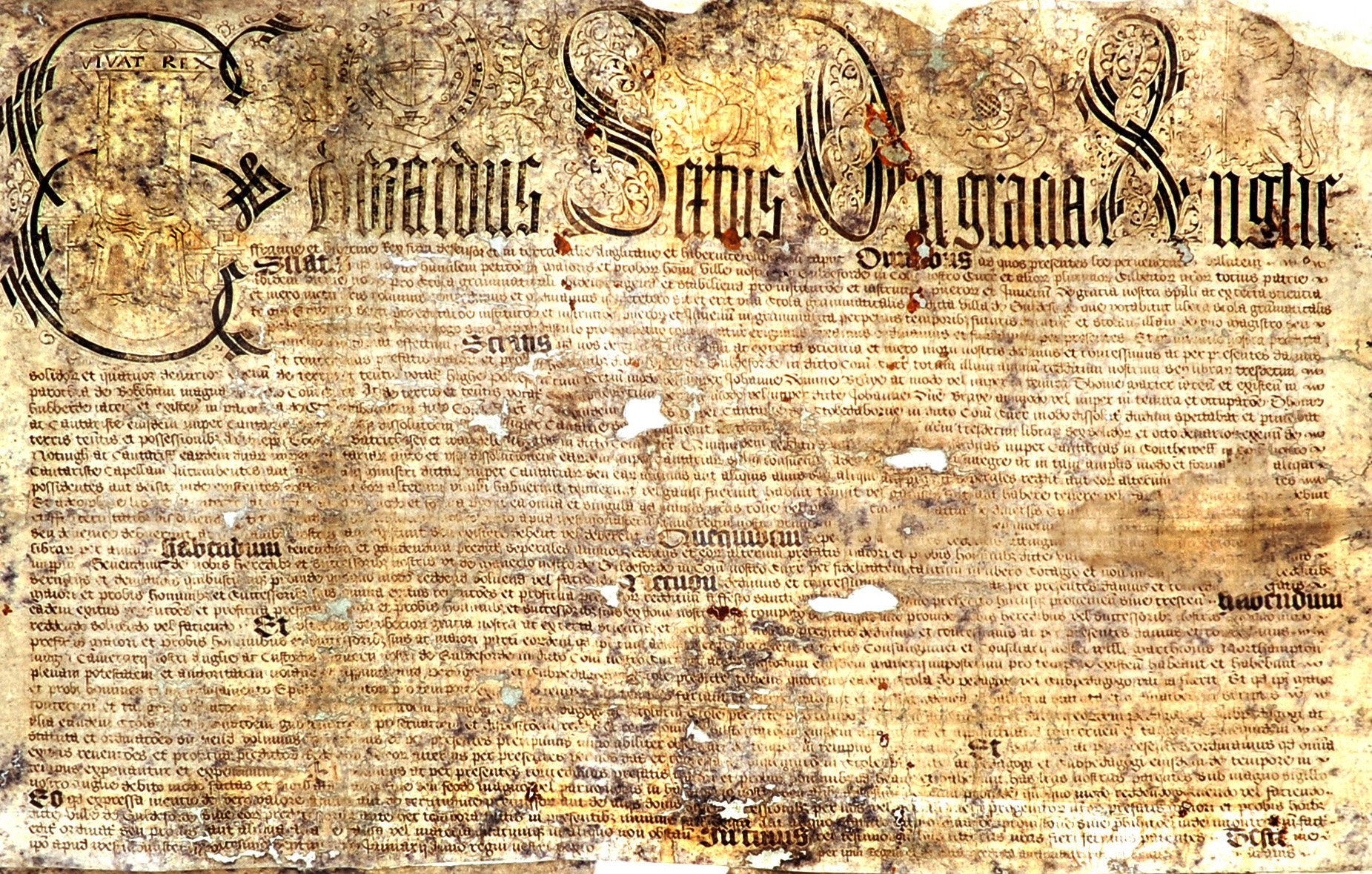 Photograph of the original charter granted to the Royal Grammar School, Guildford by King Edward VI of England in 1552